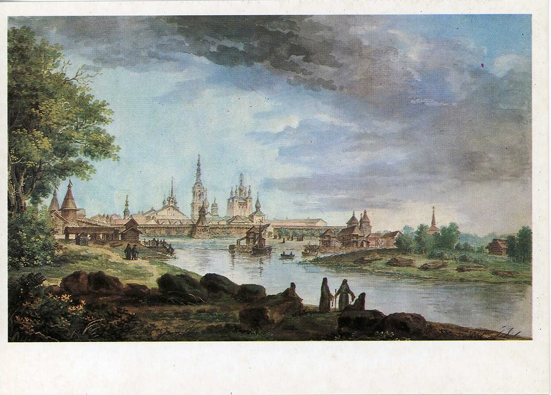 View of Solovetsky Monastery